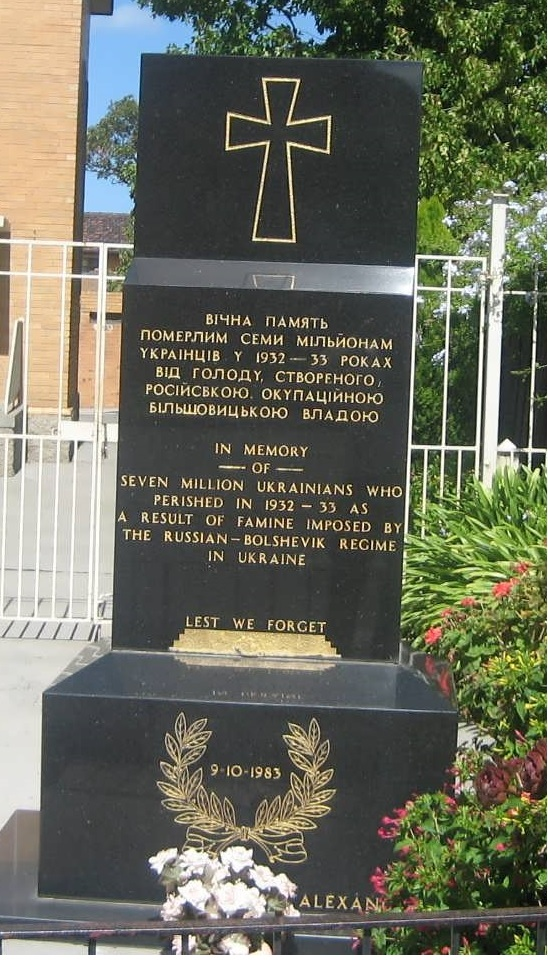 Holodomor мonument Melbourne